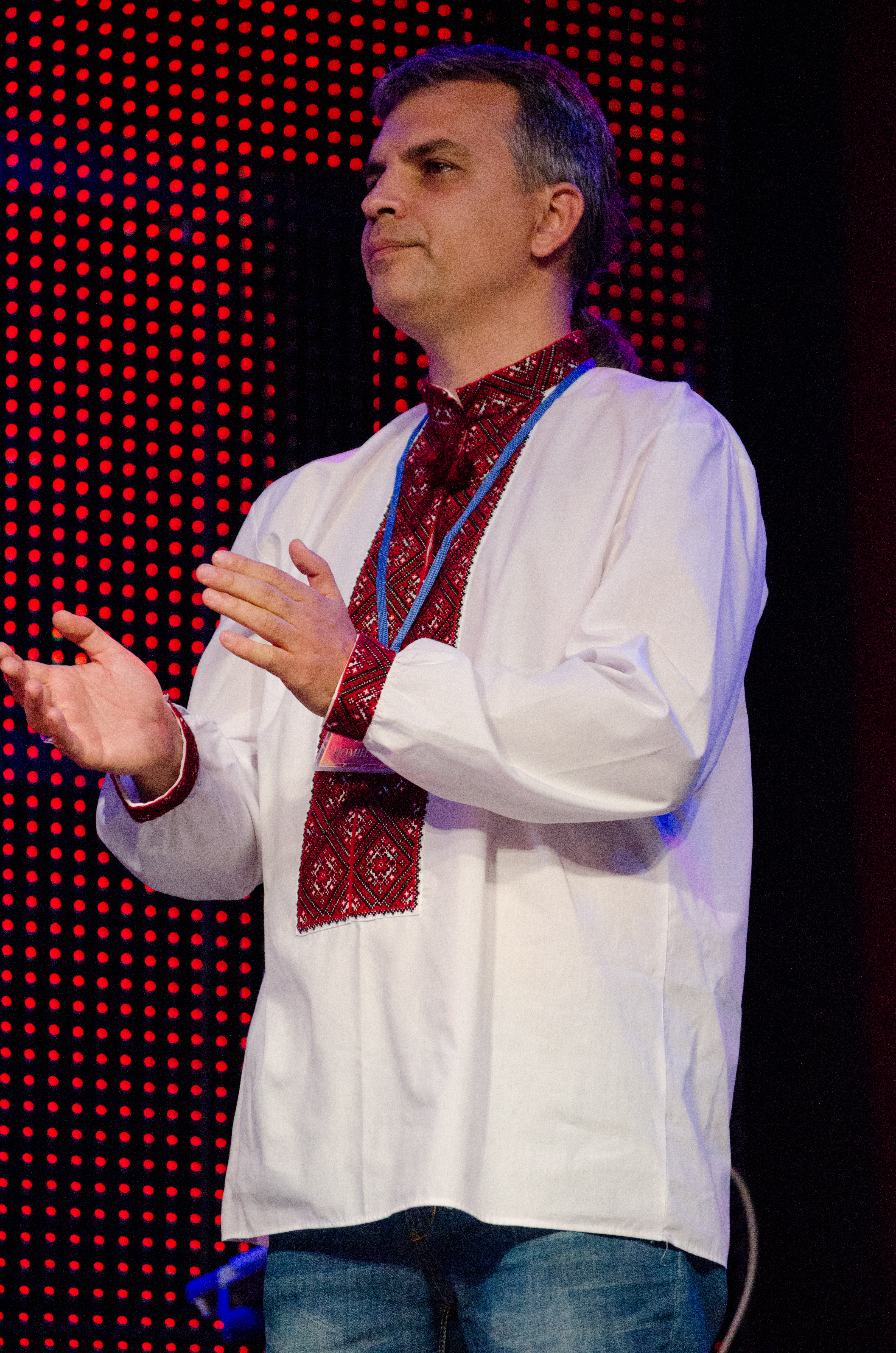 Koronatsiya Slova 2013 literature awards ceremony, Kiev, Ukraine